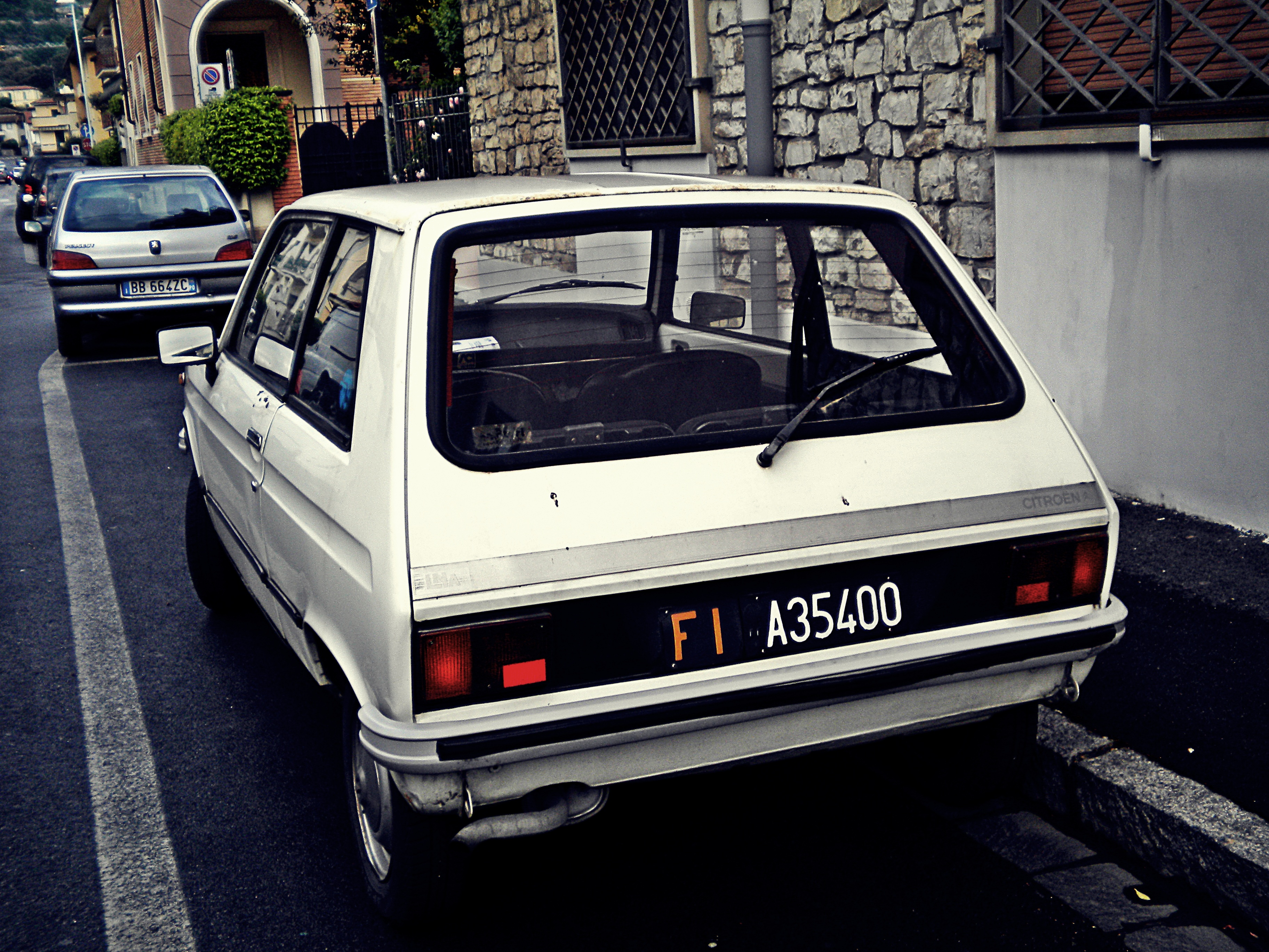 citroen Ln